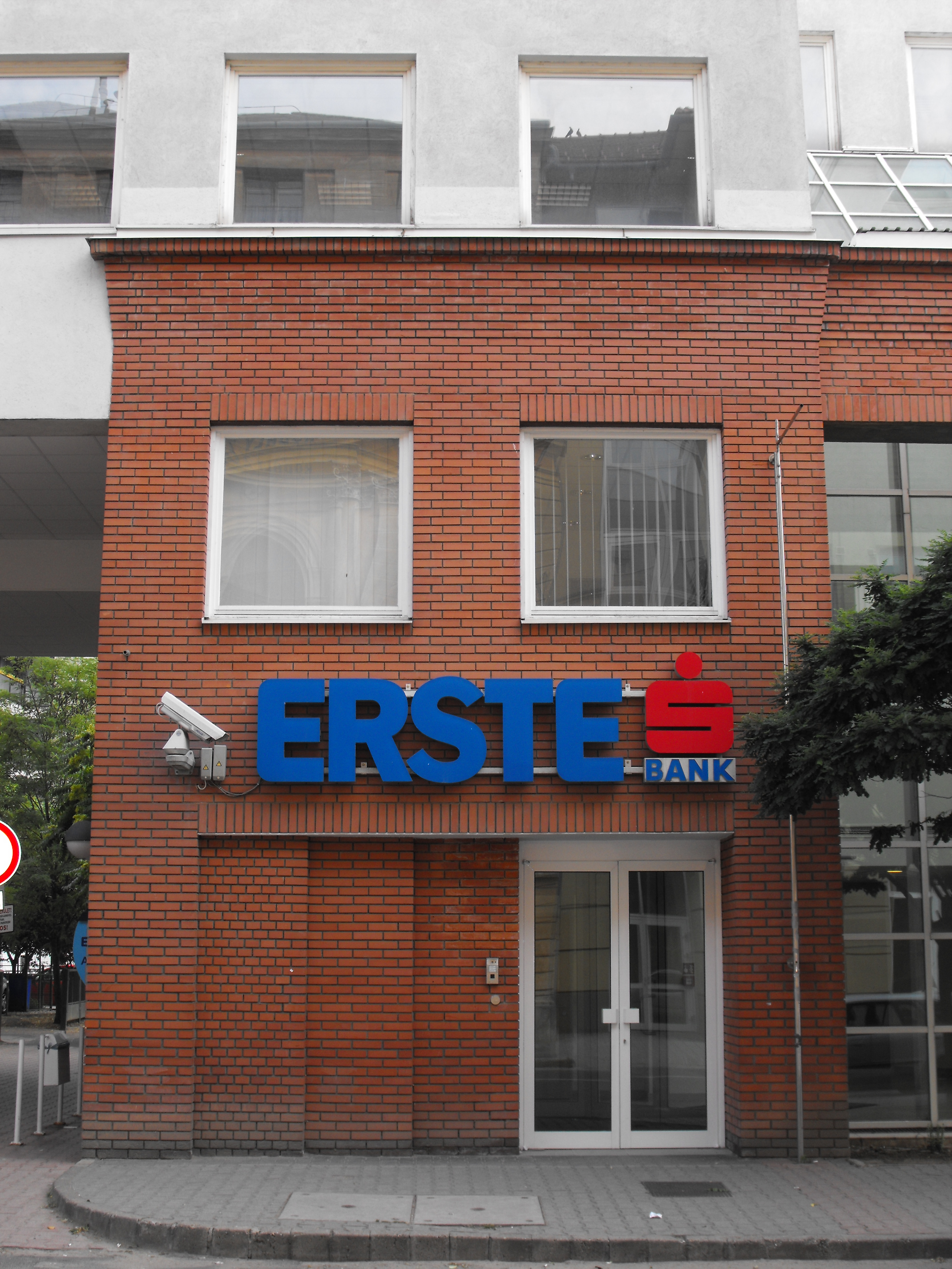 Erste Bank in Debrecen, Hungary.